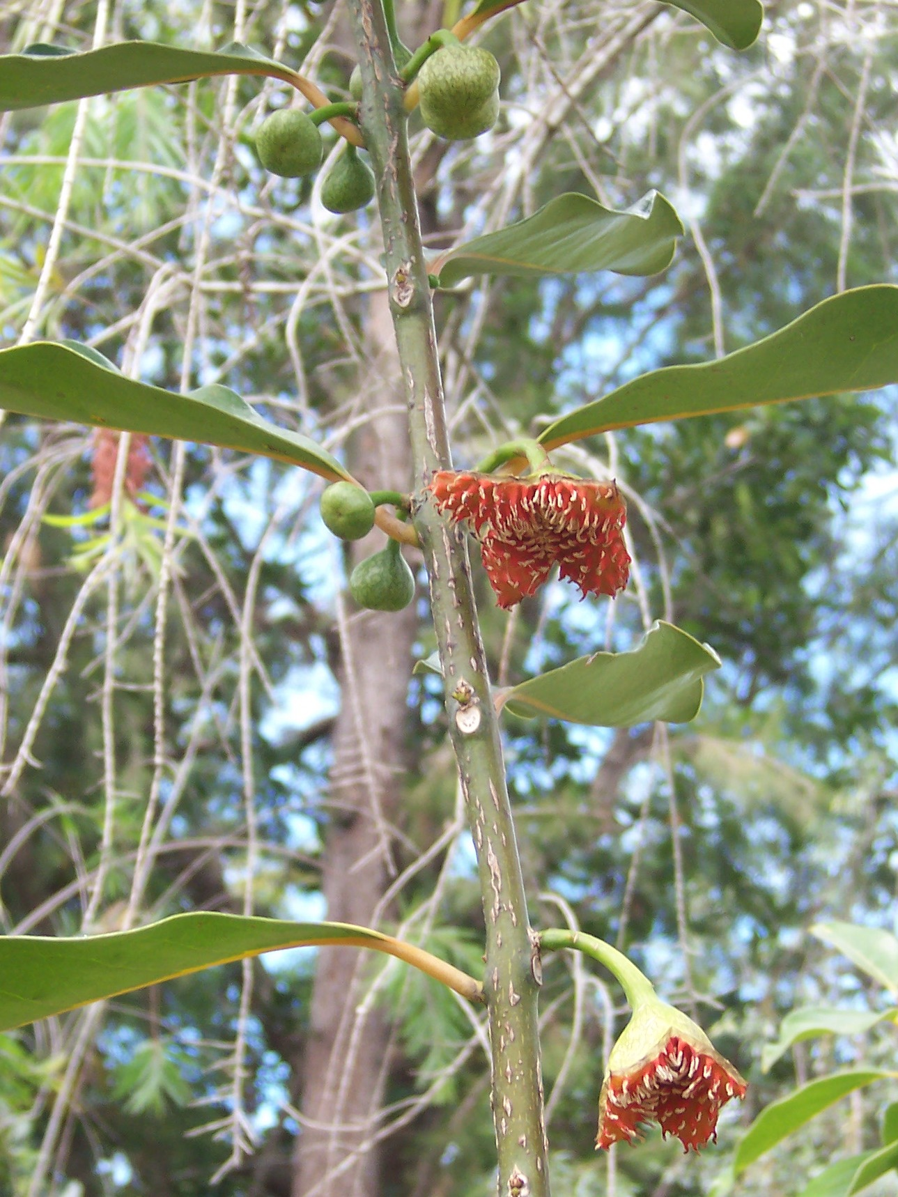 male inflorescences of Tambourissa elliptica (Monimiaceae), a tree species endemic to Réunion island (photo taken in a nursery)